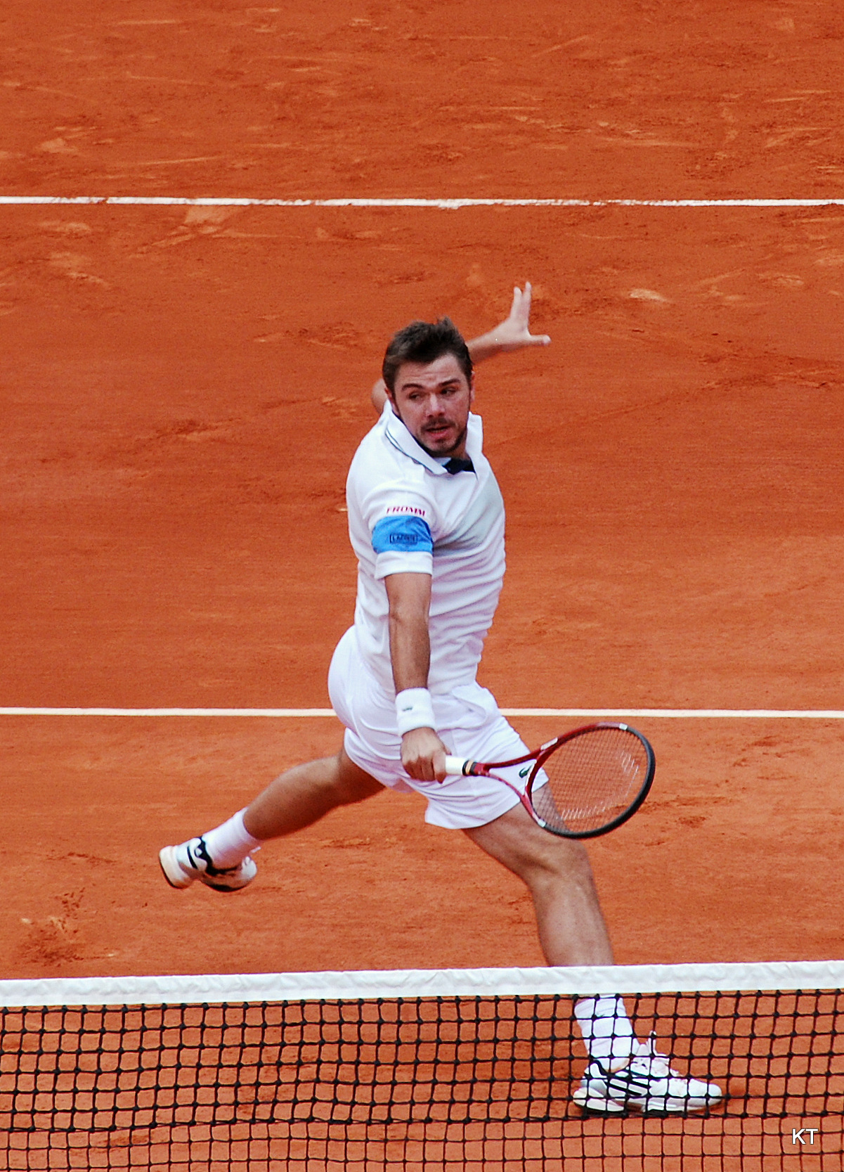 Stanislas Wawrinka during his third round match with Jo-Wilfried Tsonga at Roland Garros 2011. Wawrinka won 4-6, 6-7, 7-6, 6-2, 6-3.